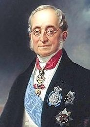 Karl Robert Graf von Nesselrode (1780-1862), Chancelor of Russia